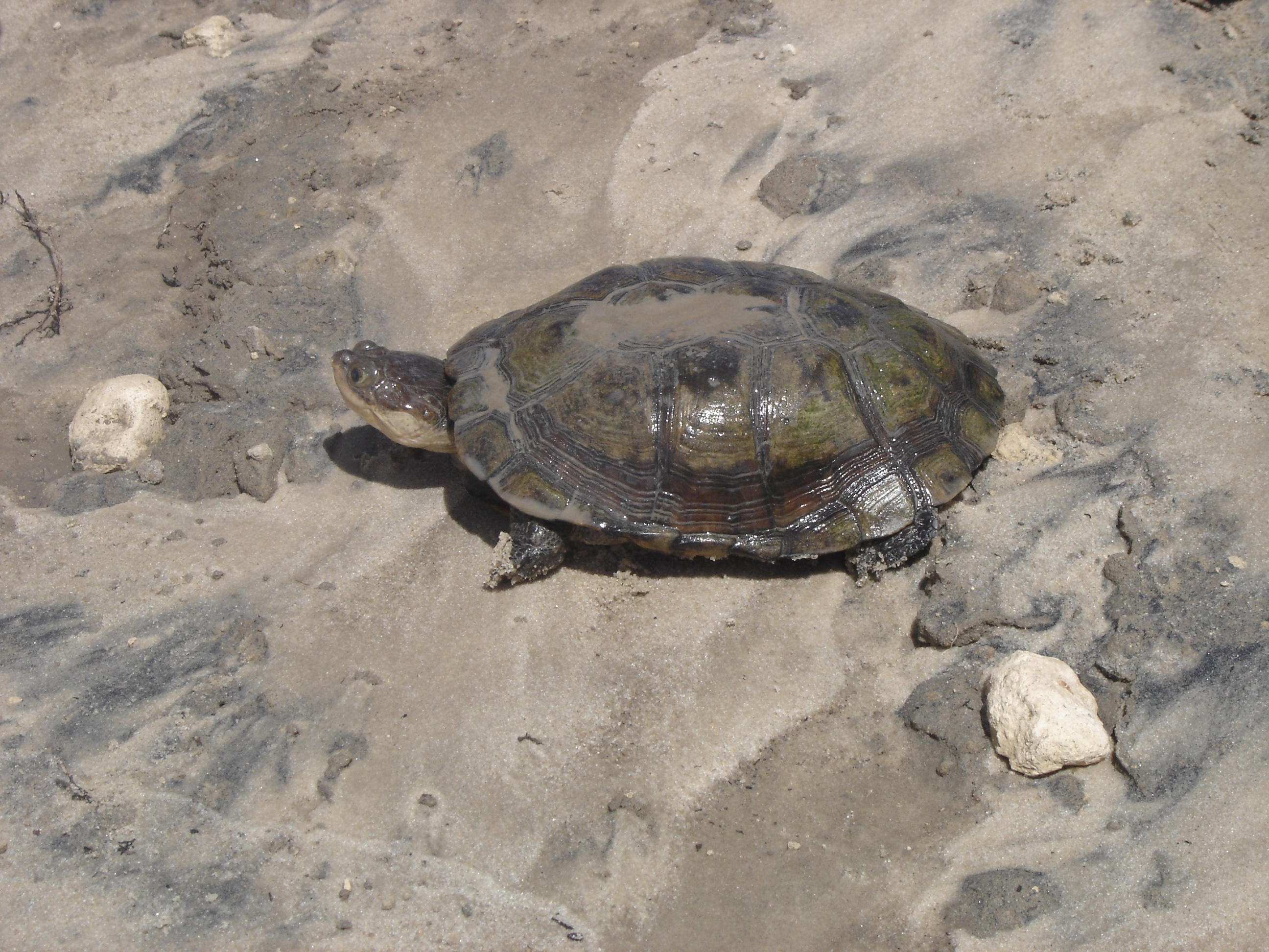 Freshwater turtle from a temporary pond on the road from Tsiombe to Beloha, in the Androy region of southern Madagascar